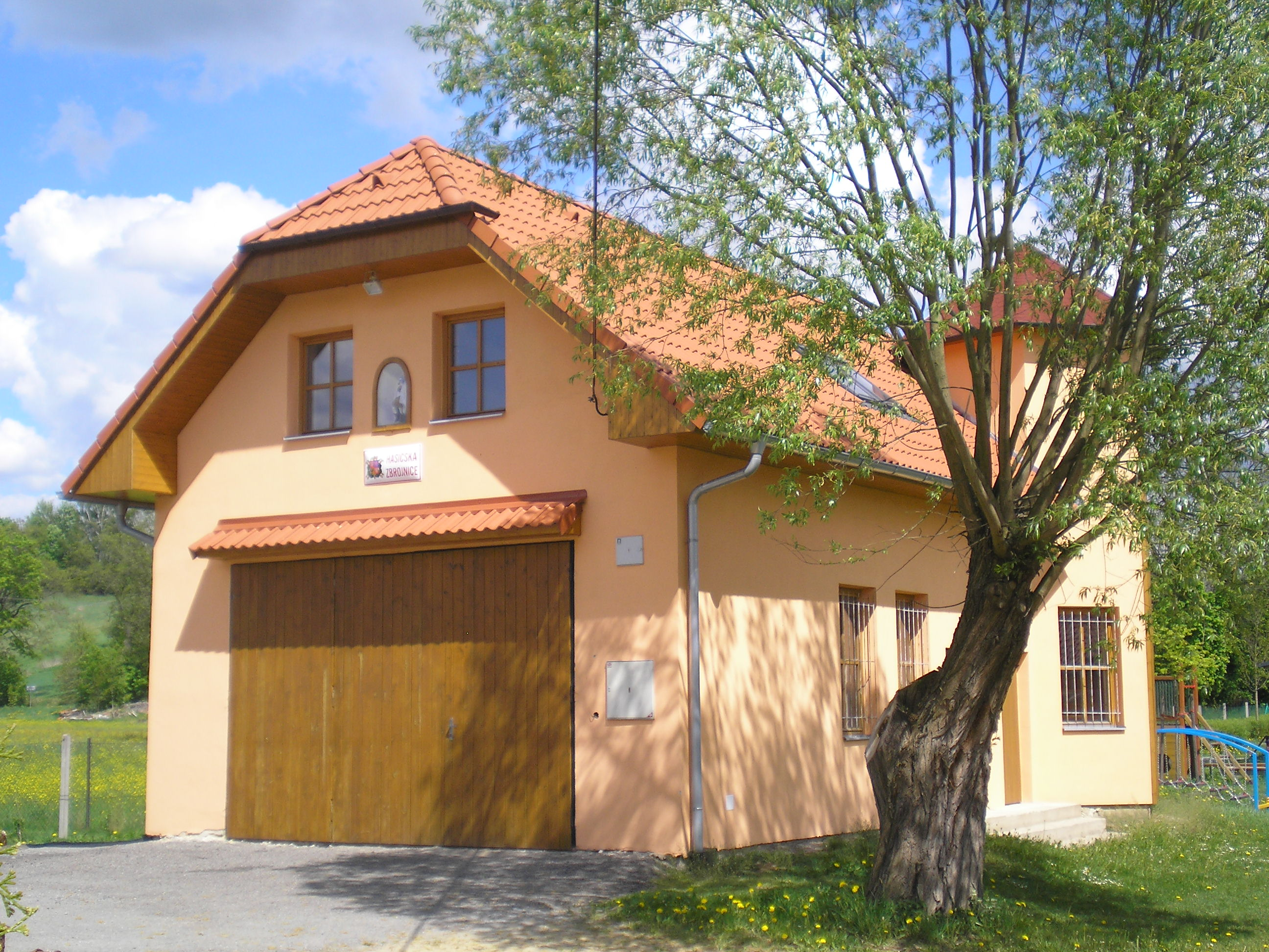 Hasičská zbrojnice